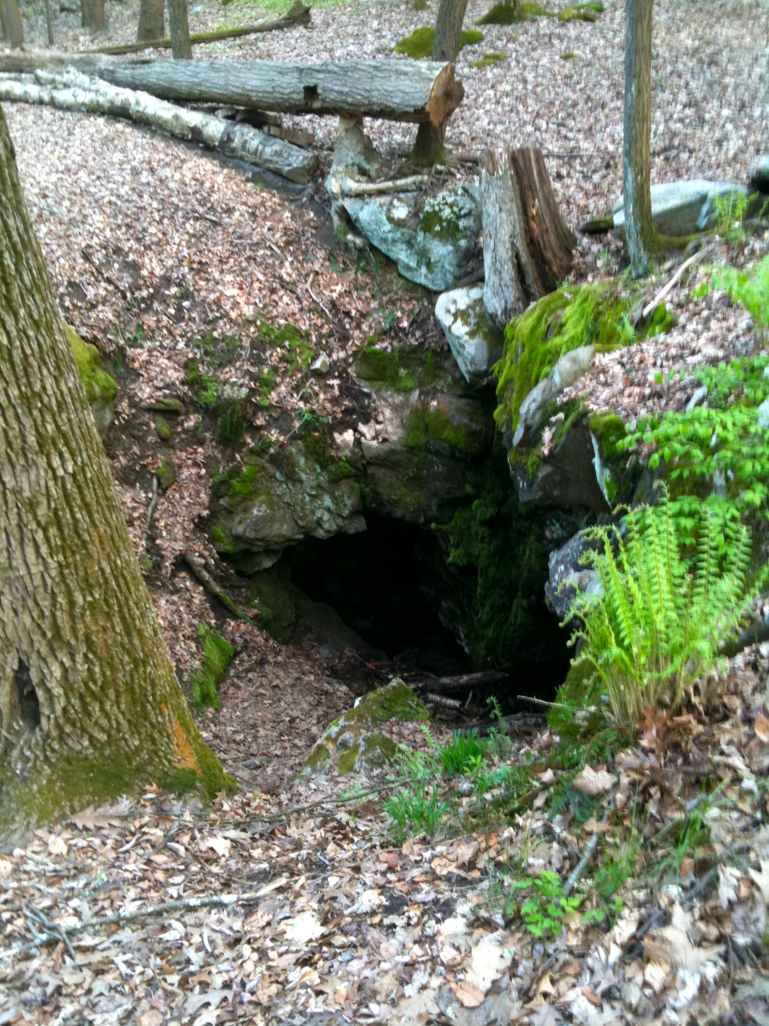 Housatonic Range Blue-Blazed Trail. Blue-Blazed CFPA linear foot path from Candlewood Mountain in New Milford and to Gaylordsville Cemetary in Gaylordsville. Housatonic Range CFPA Blue-Blazed Trail in New Milford. Tory's Cave on side trail.